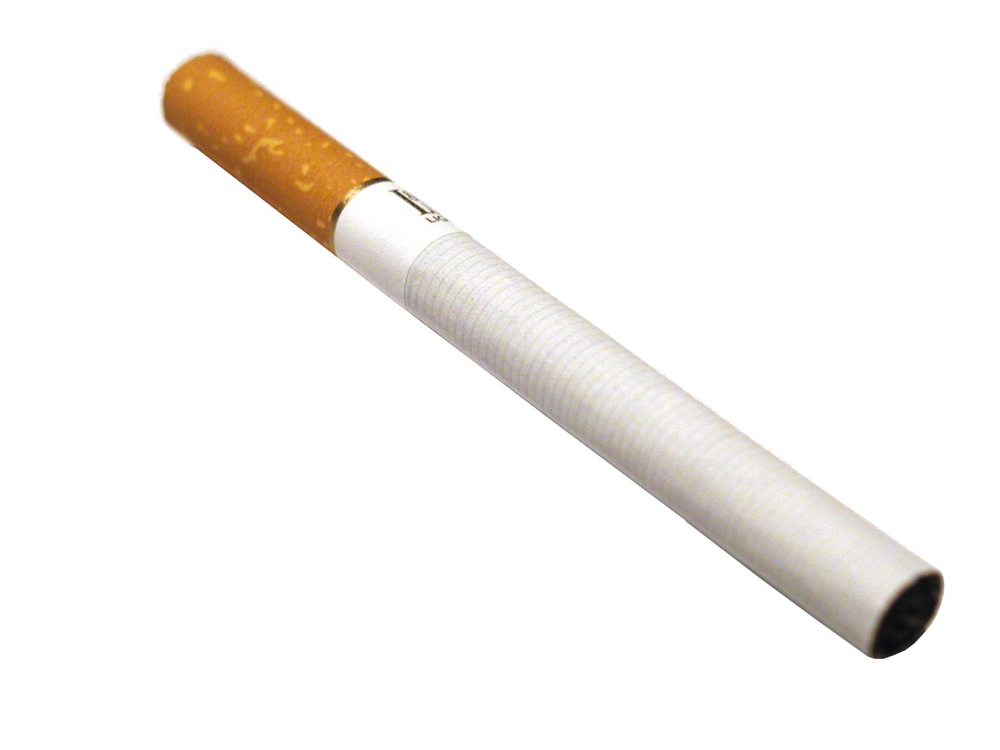 L&M cigarette.